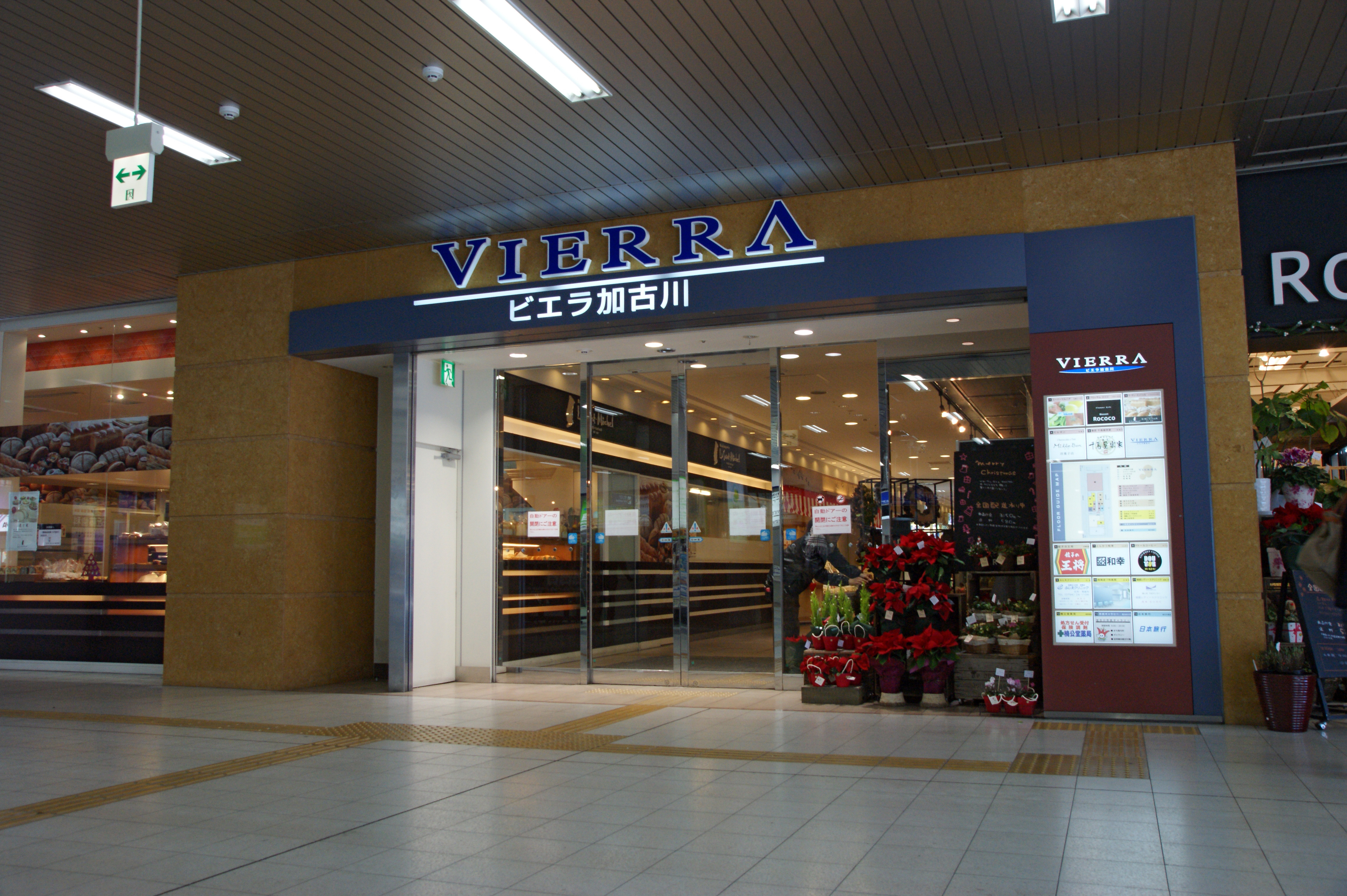 Kakogawa Station, Kakogawa, Hyogo prefecture, Japan